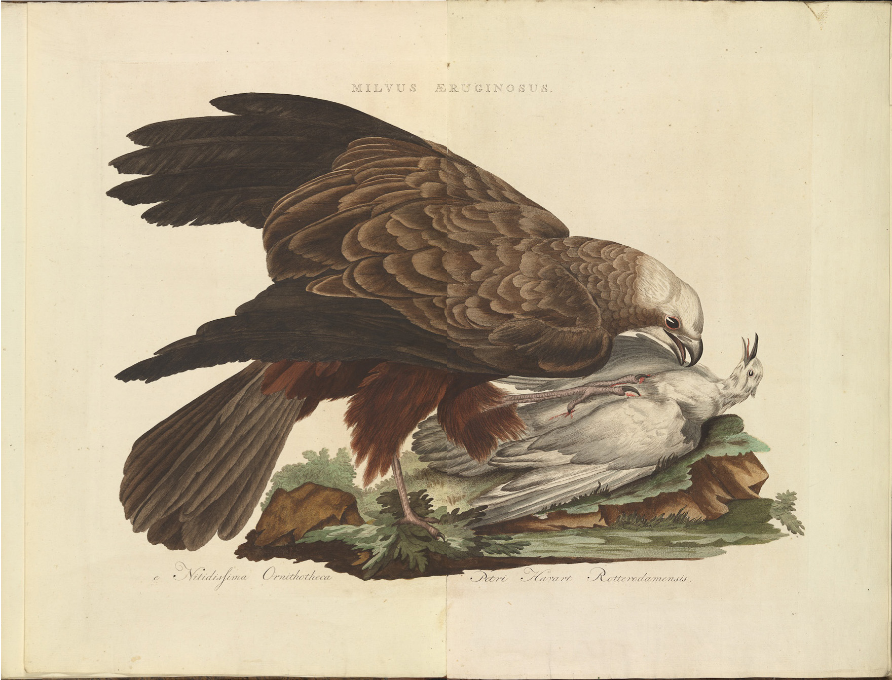 Plate 8 from the Nederlandsche vogelen by Nozeman and Sepp.